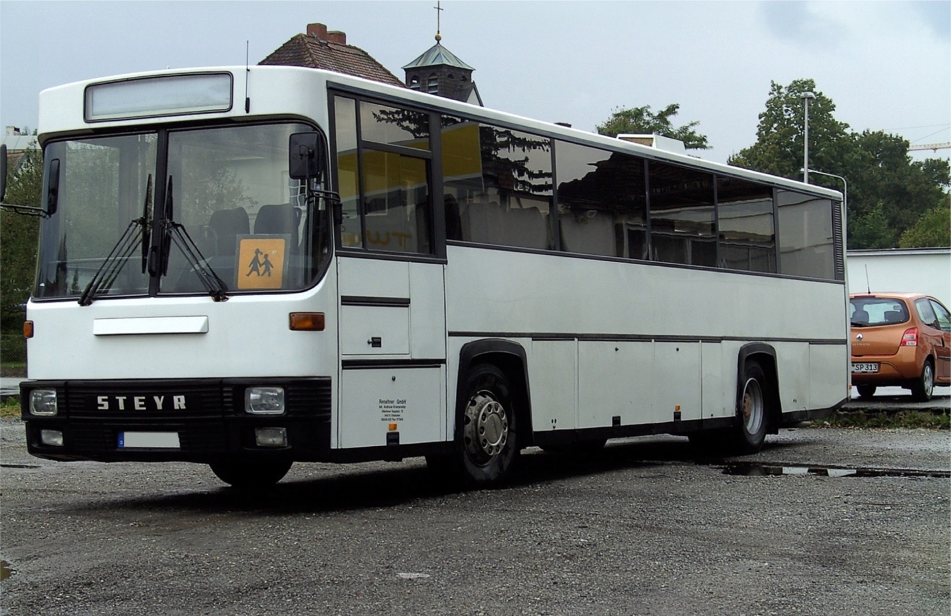 Steyr bus in Vilshofen an der Donau, Germany. Renaltner GmbH operator.